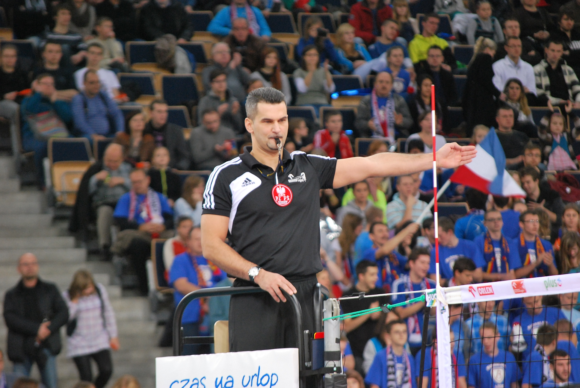 Official volleyball signals - permission for serve